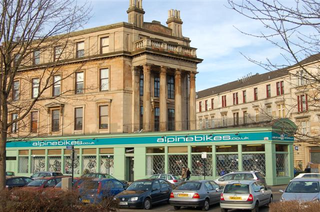 Bike shop At St Georges Cross.